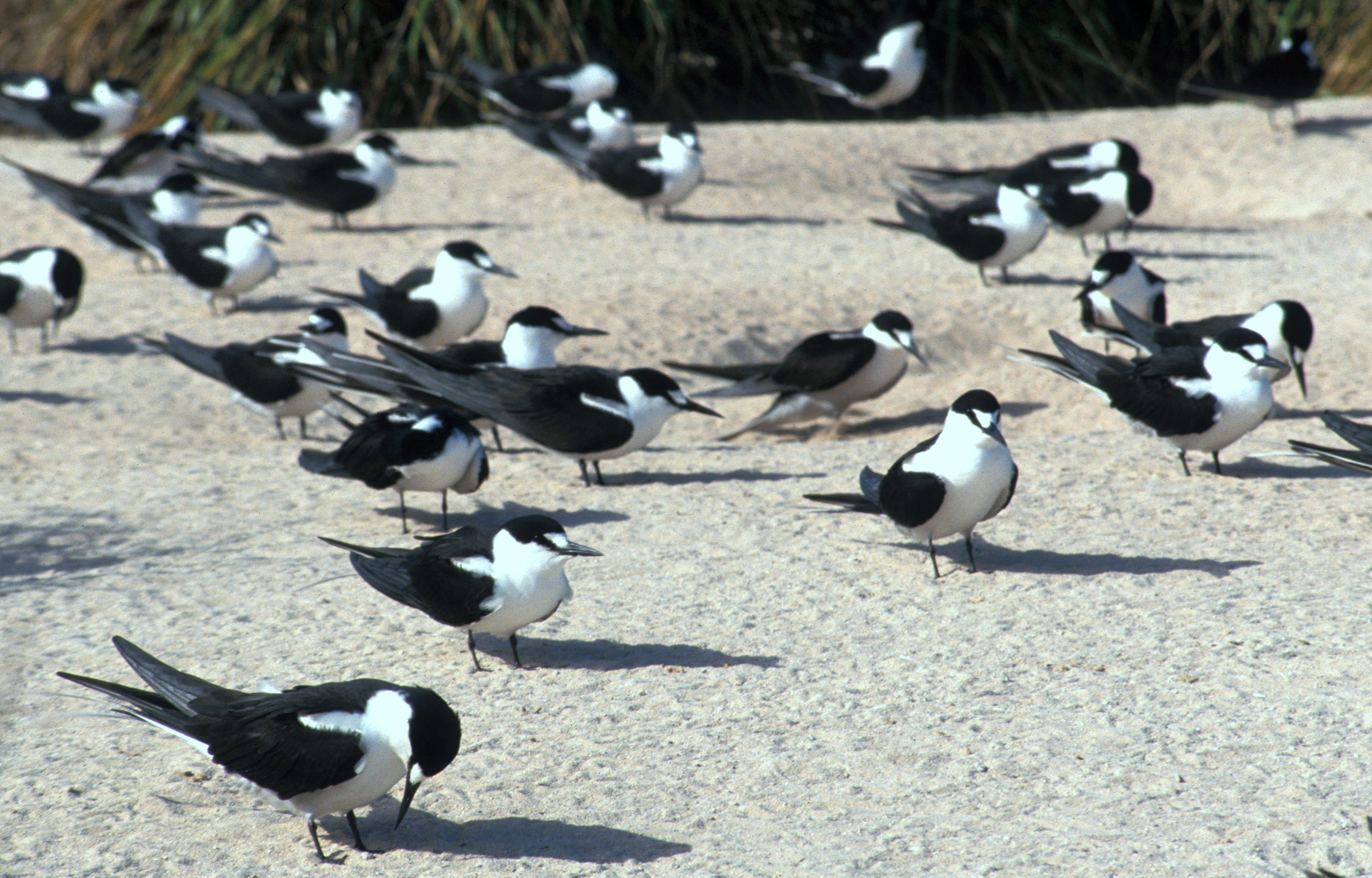 Colony of Sooty Terns Onychoprion fuscatus on Starbuck Island, Line Islands, Kiribati.